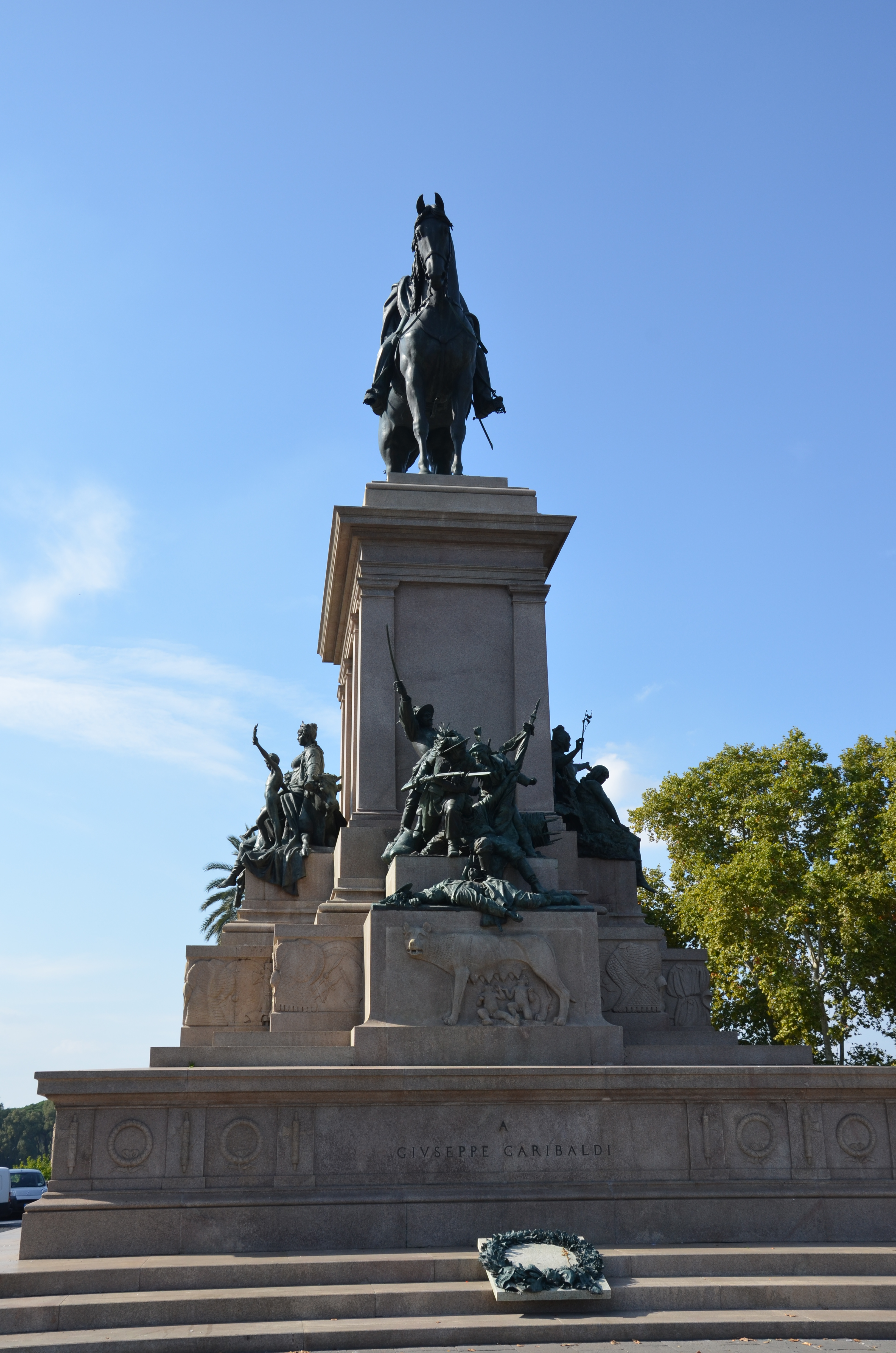 This picture shows the Monument to Giuseppe Garibaldi (Rome) during daytime.